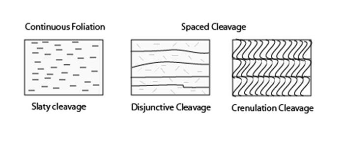 Schematic drawing of the two basic types of cleavage: continuous and spaced. Spaced cleavages consist of cleavage domains and microlithons. The cleavage domains are the dark lines and the the microlithons are the spaces between. Note the disjunctive cleavage has a random orientation of mineral grains and the continuous cleavage has a preferred orientation.